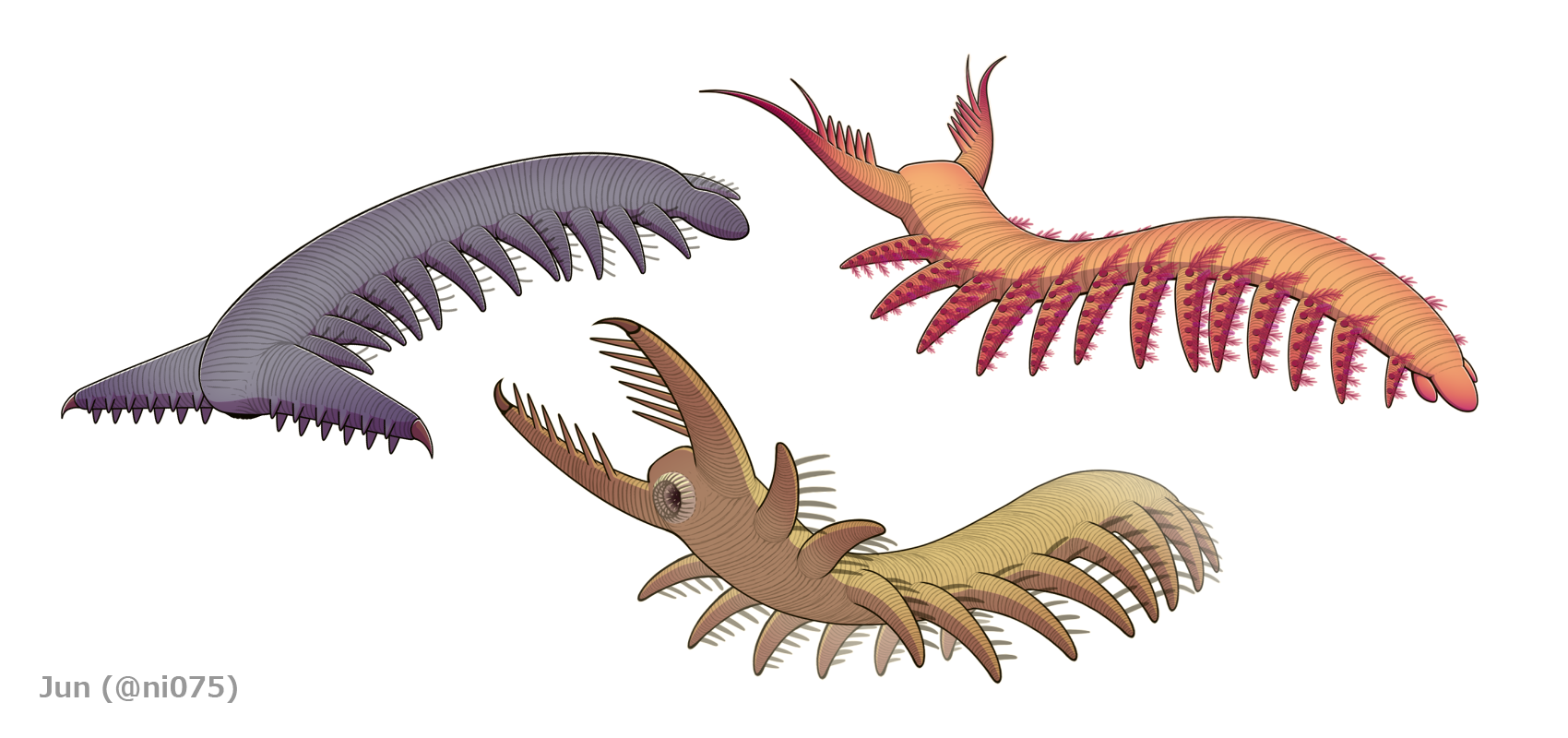 Examples of siberiid lobopodians (Siberiida; Siberiidae, stem-group arthropod). Size not to scale.